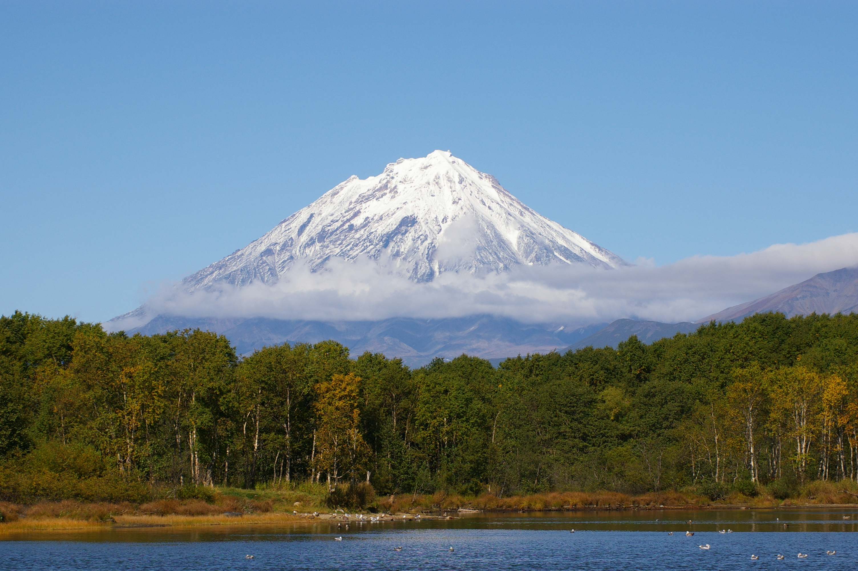 The view from radionuclide station RN60 in Kamtschatka, Russian Federation. Copyright CTBTO Preparatory Commission